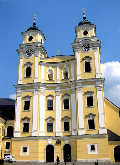 Collegiate Church at Mondsee, Austria. Baroque facade ( 1736 )